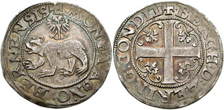 Switzerland, Bern. After 1560. AR Dicken (9.31 g). MONETA NO BERNENSIS, bear left, heraldic eagle above BERCH ZERING CONDIT, cross in floreate quadrilobe. see Coins of Switzerland Lohner 306ff.